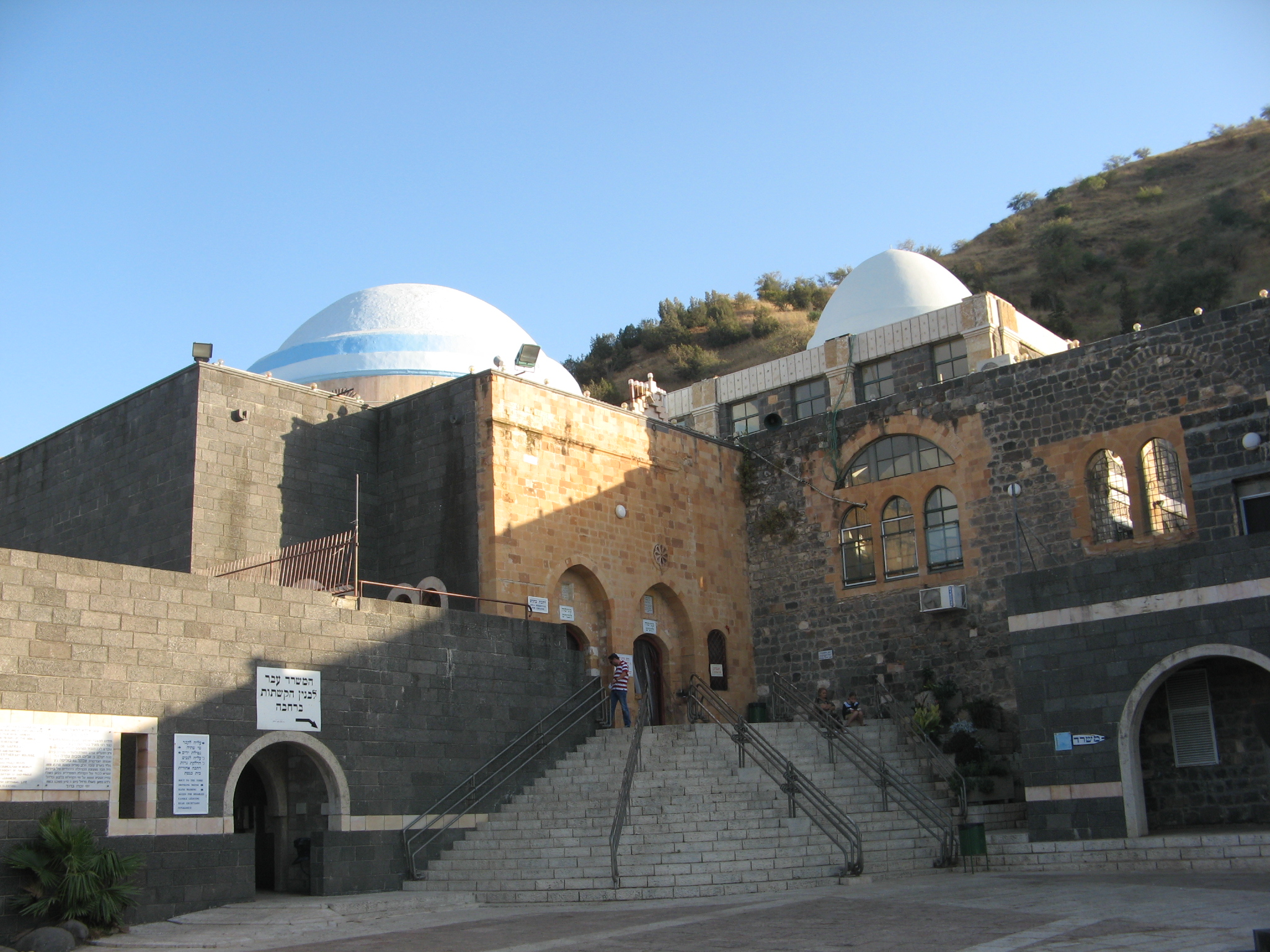 Monument at tomb of Rabbi Meir Baal Haness